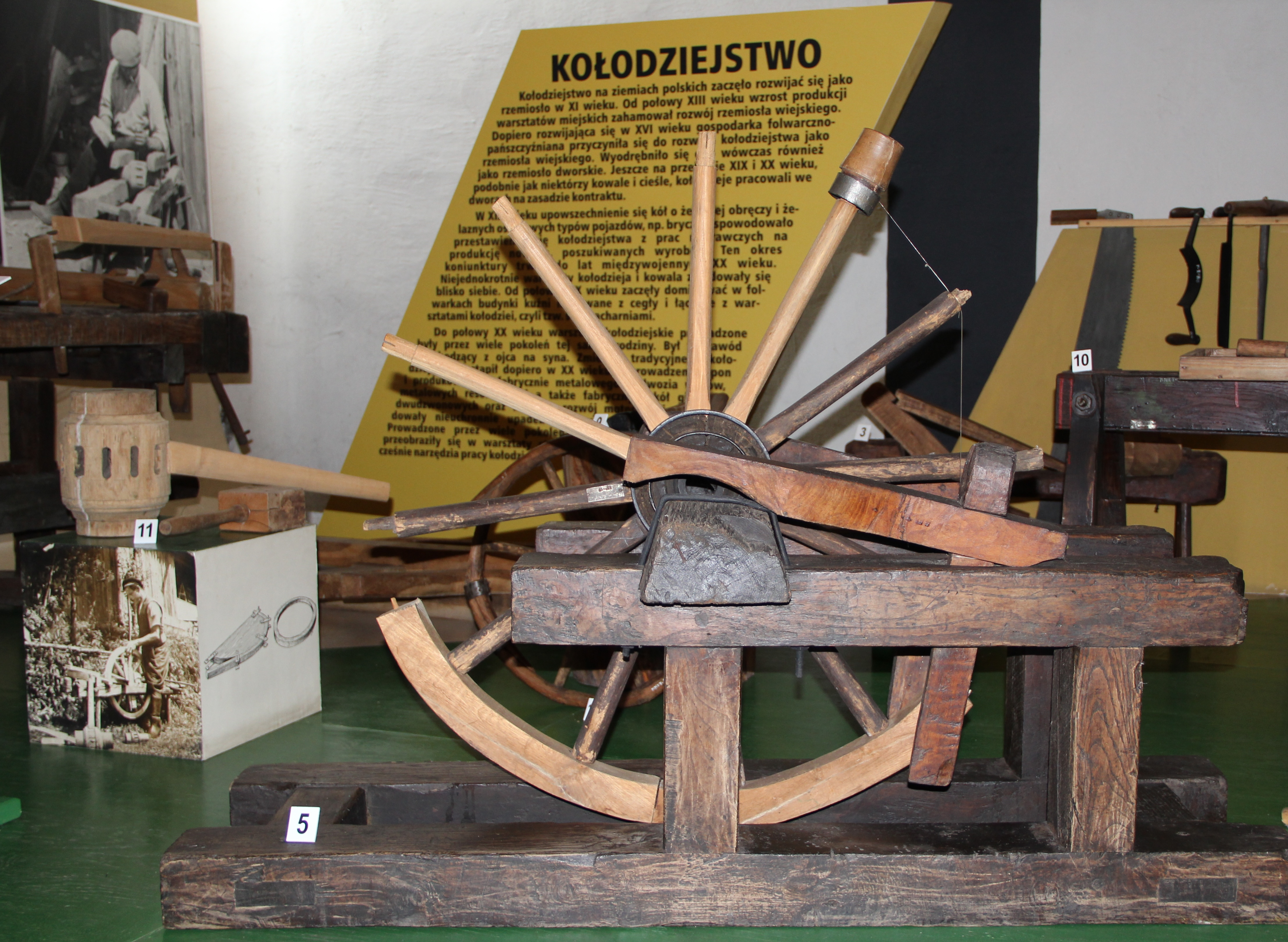 National Museum of Agriculture in Szreniawa